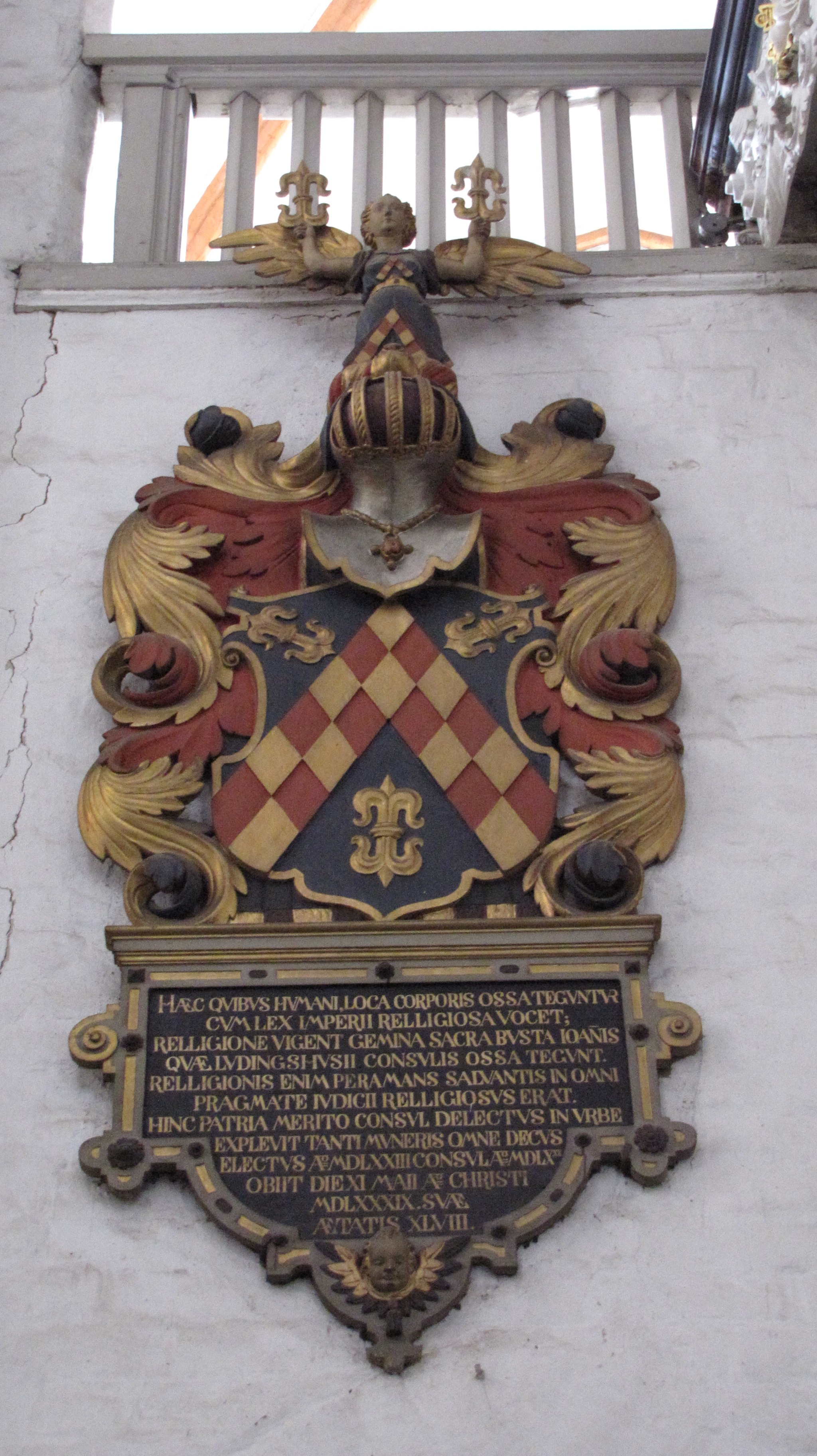 Epitaph for Johann Lüdinghusen in St. Jakobi Lübeck